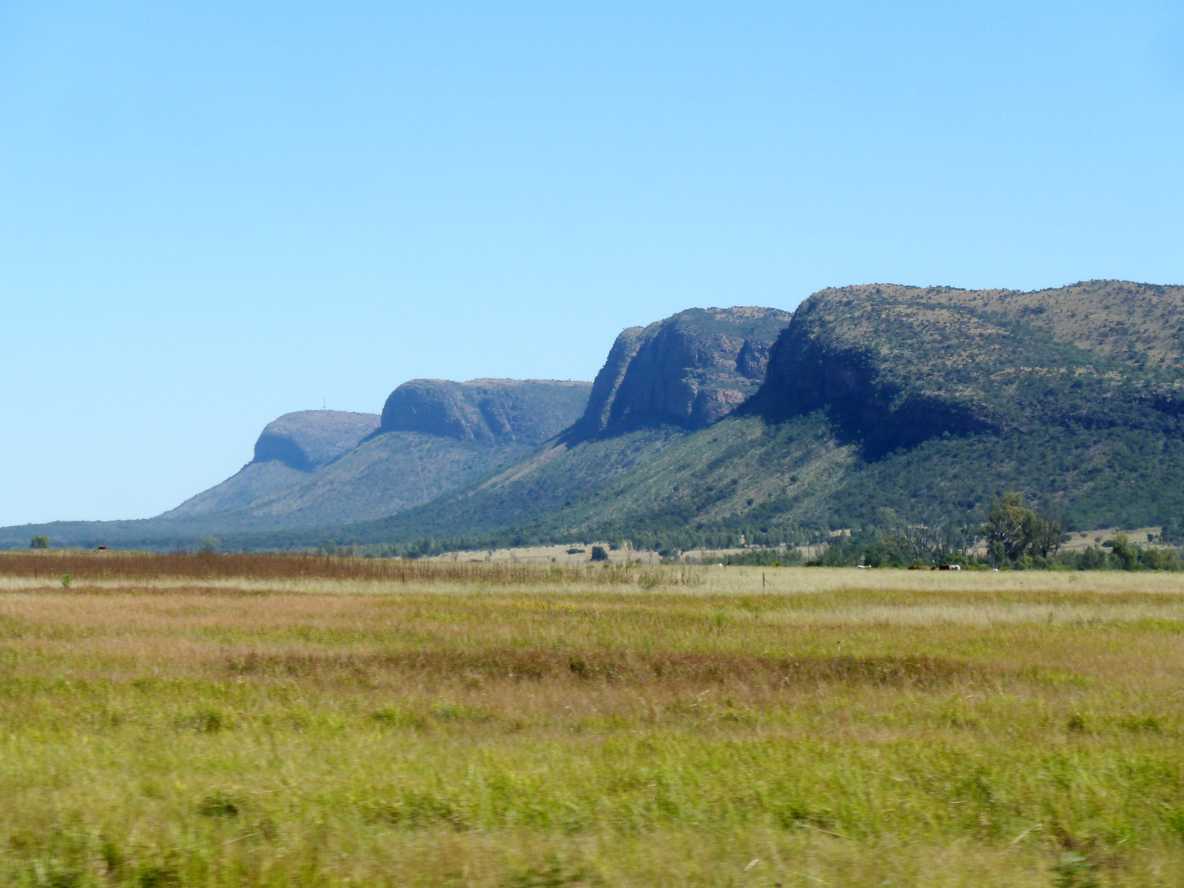 Sandrivier range, south of Vaalwater in the Waterberg, Limpopo, South Africa